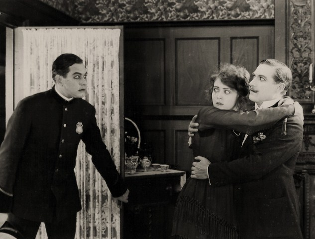 L. to R. : unknown, Jane Novak, and Rupert Julian in The Fire Flingers (1919) - cropped screenshot